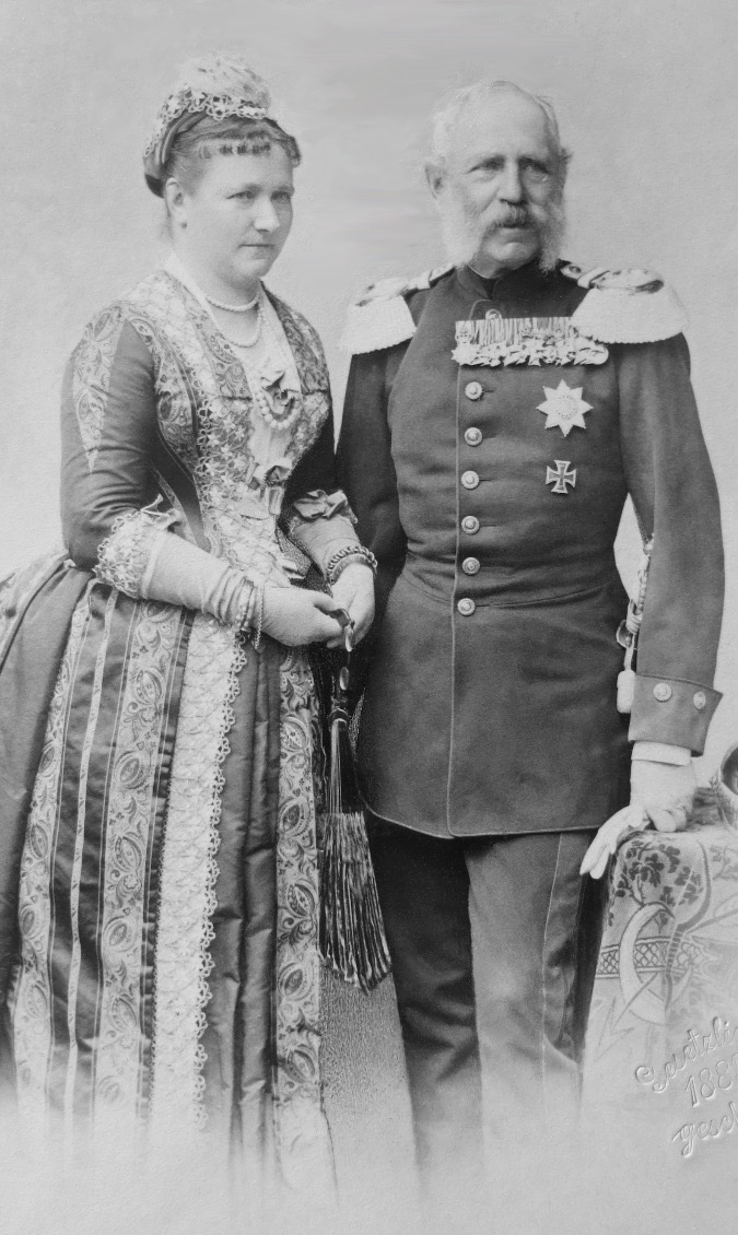 King Albert & Queen Caroline of Saxony